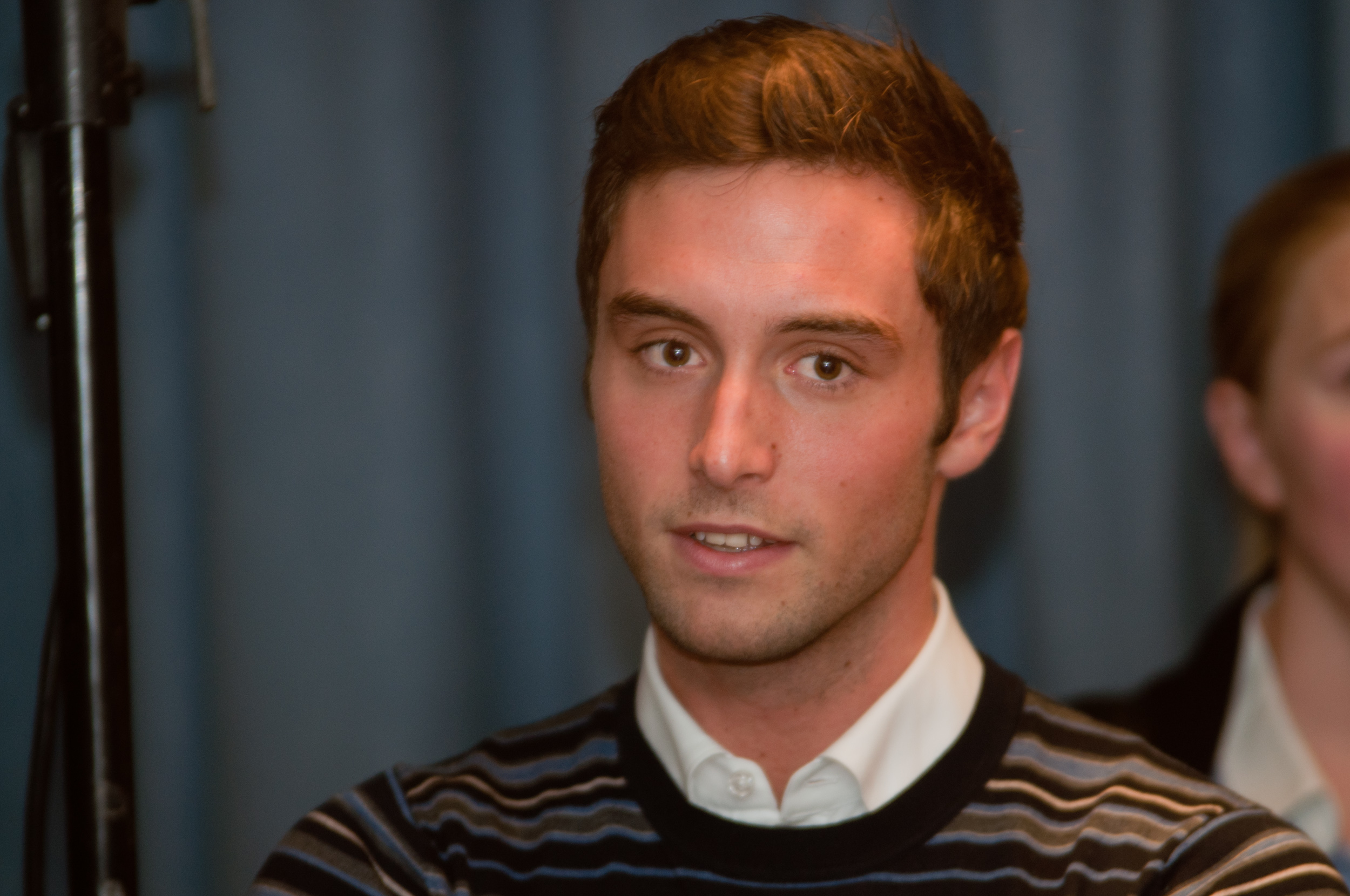 Måns Zelmerlöw 2010 at a press conference for Melodifestivalen 2011